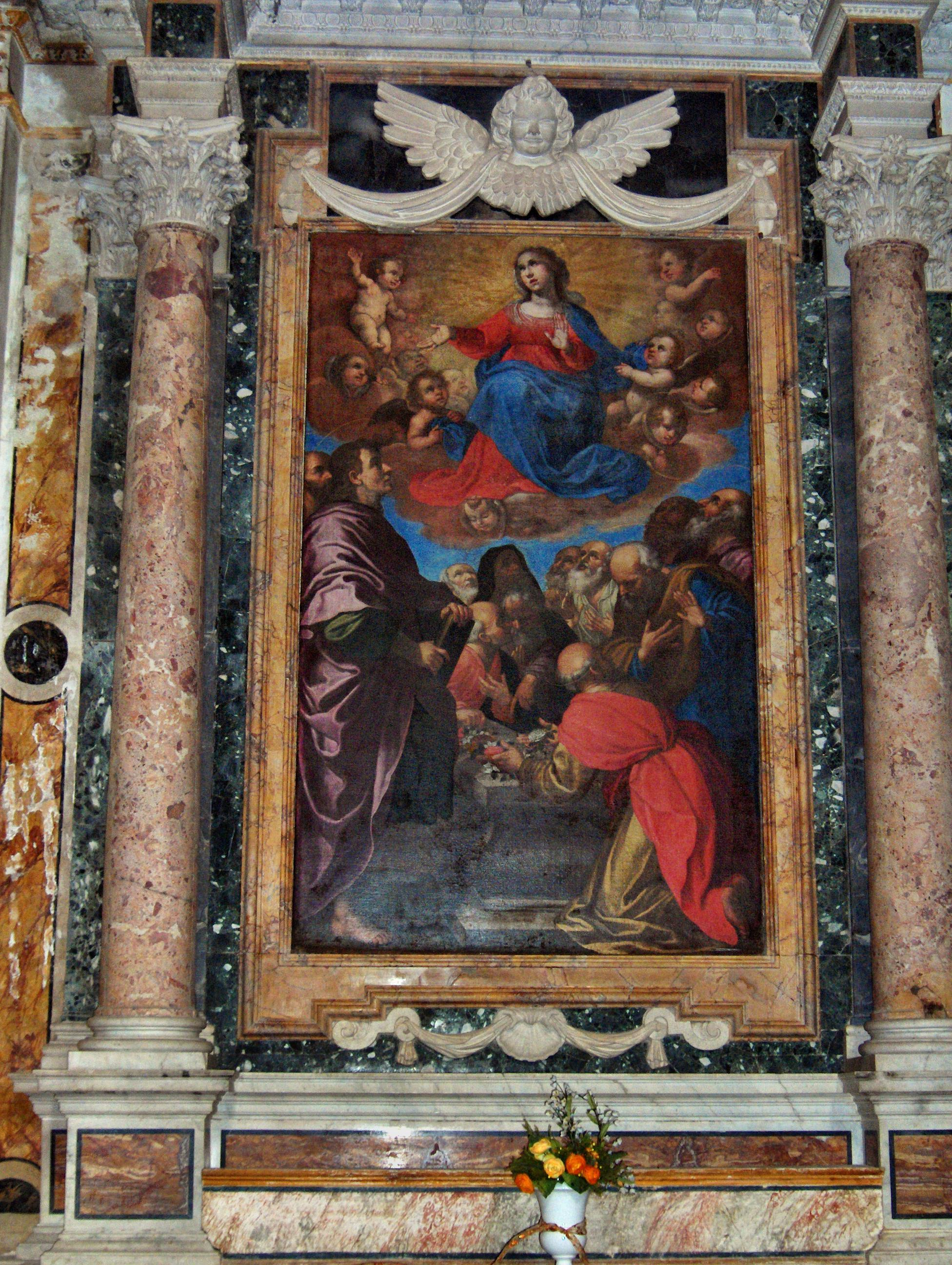 "Assumption" painting by Andrea Polinori (1586-1648) in the Chapel of the Assumption in the church of San Fortunato, Todi, Umbria, Italy